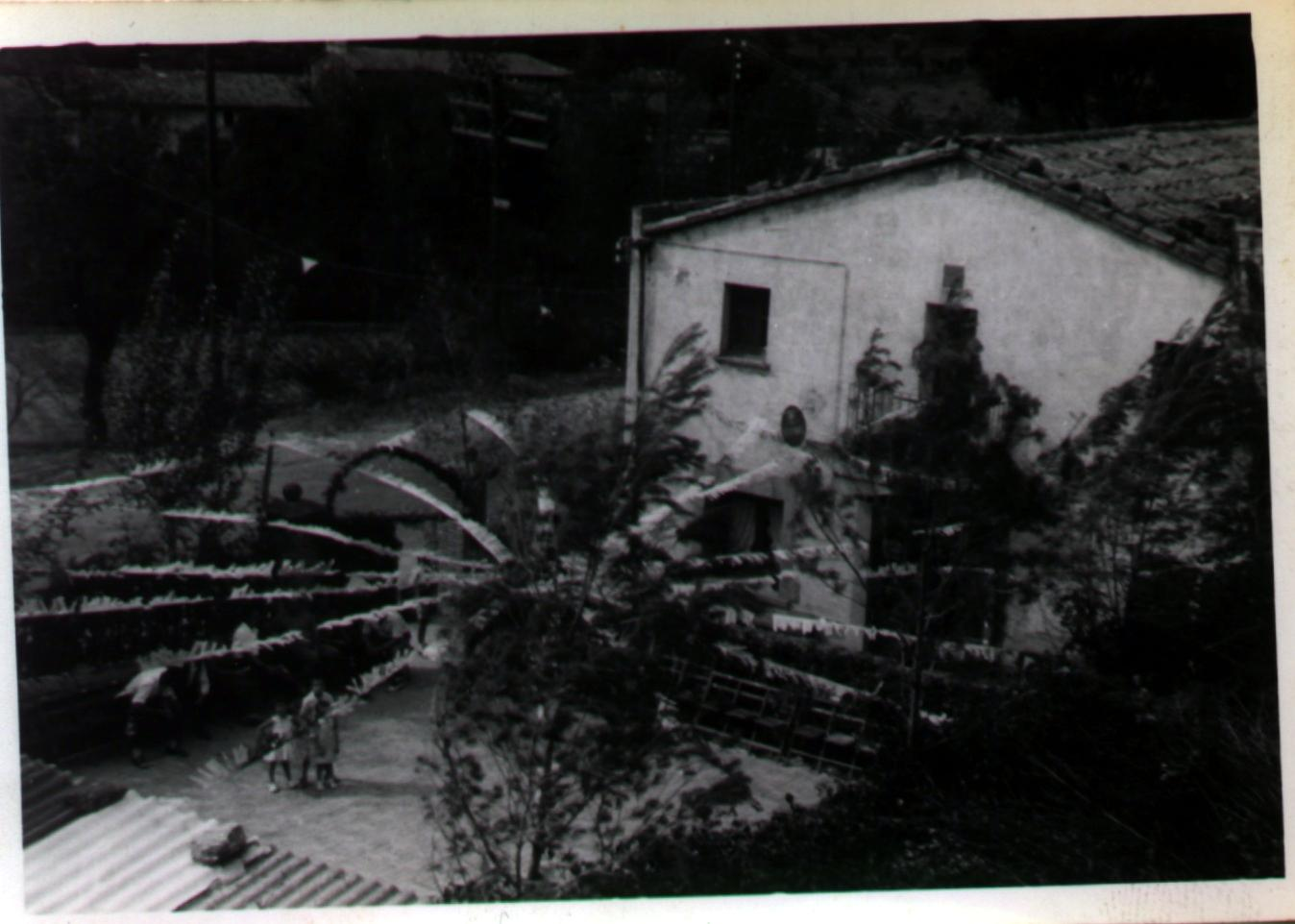 La Casa Nova de Can Pere Torn (1950) (Tagamanent, Vallès Oriental, Catalonia, Spain).